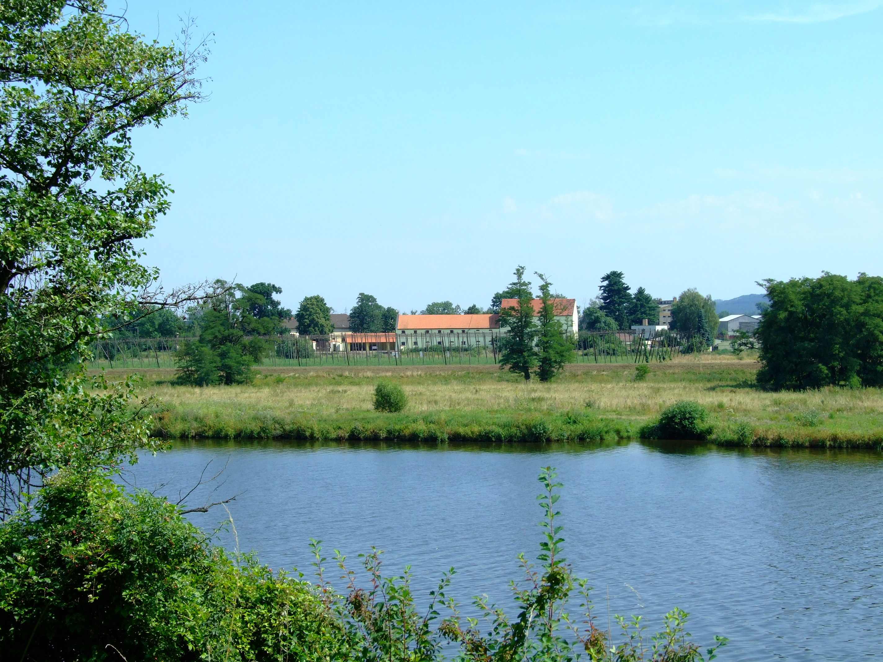 View from Vltava riverbank near Mlčechvosty towards Dušníky nad Vltavou village, Central Bohemian Region, CZhelp